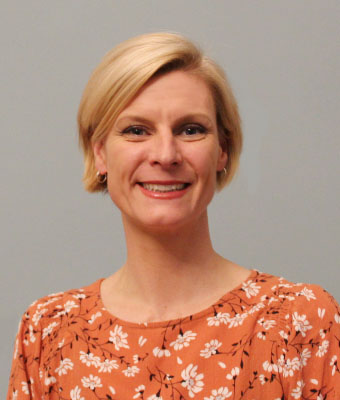 Pippa Hackett, appointed a Minister of State in the Department of Agriculture for Ireland on 27 June 2020